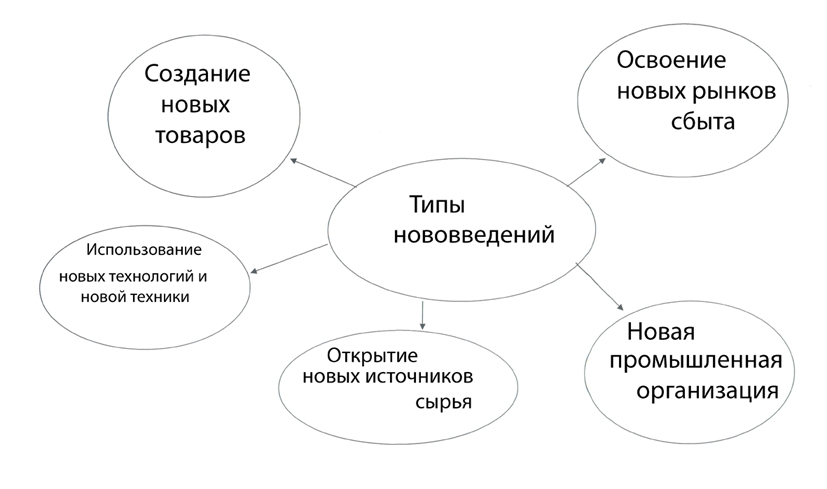 Table of innovations (in russian) types of Josef Shumpeter. Made by me personally